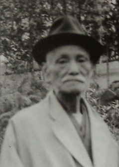 Tian Weng on bamboo. Family members for things like video summary